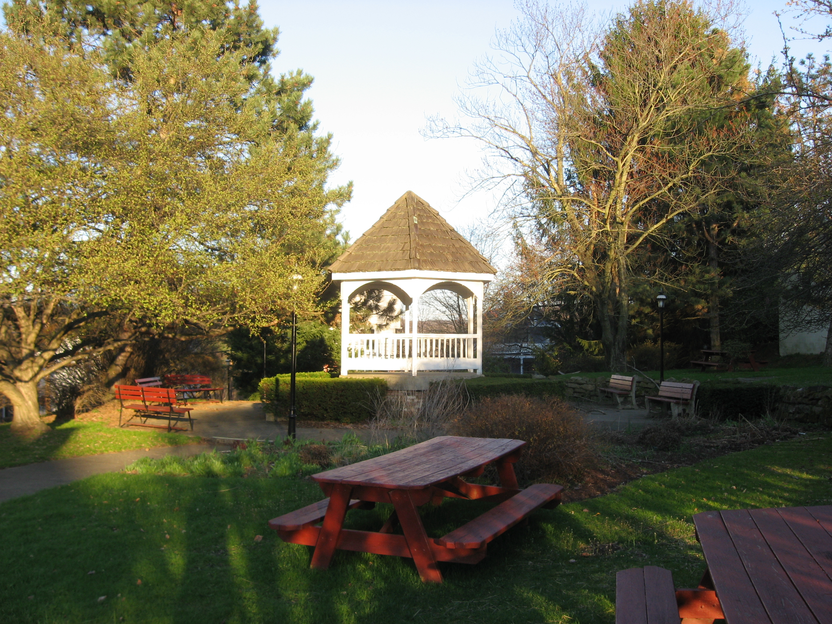 Gazebo and picnic tables in the central park of Homewood, Pennsylvania, United States.